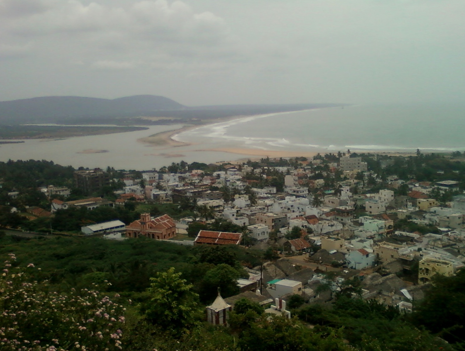 View of Bhimili(Bheemunipatnam) town from Pavurallakonda Hill in Visakhapatnam District